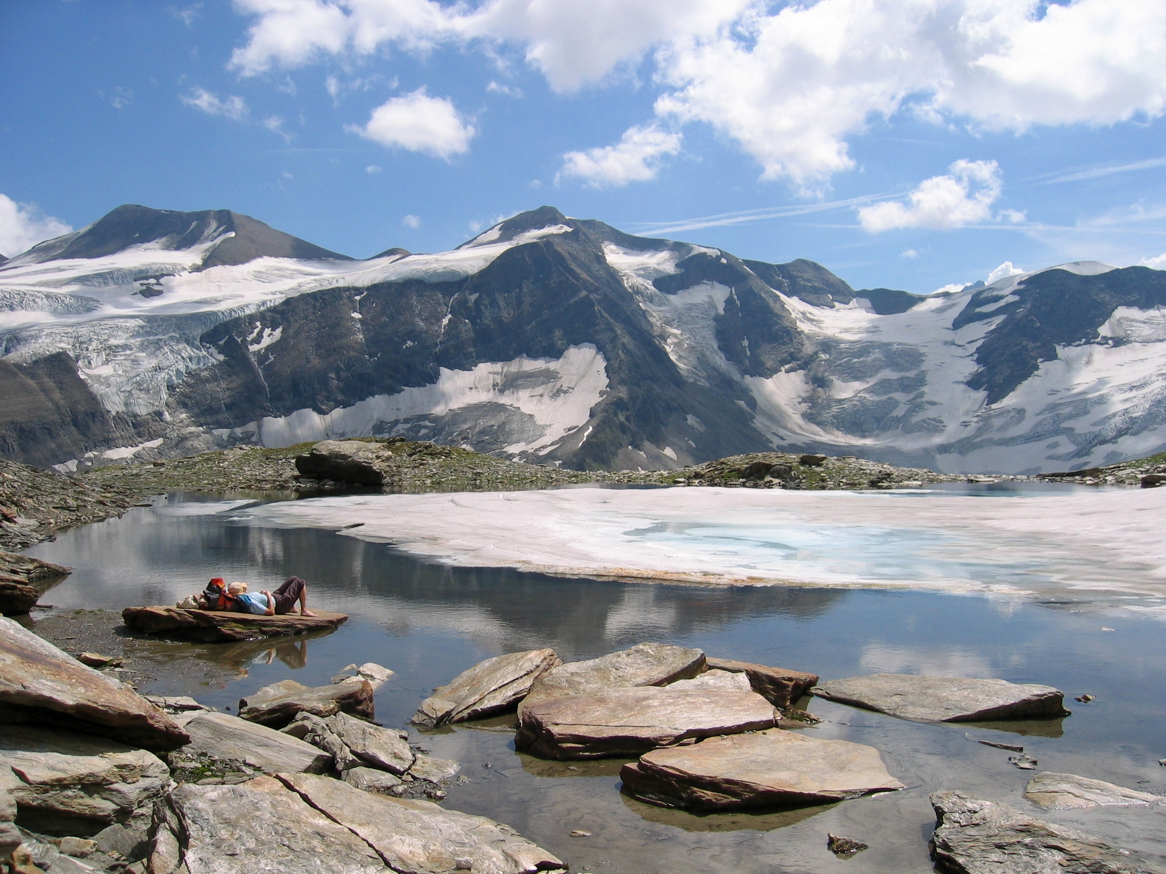 Großer Bärenkopf (left), Mittlerer and Vorderer Bärenkopf (center) and Schattseitköpfl (right), As seen near Kleiner Grieskogel, Kaprun, Glocknergruppe, Austria